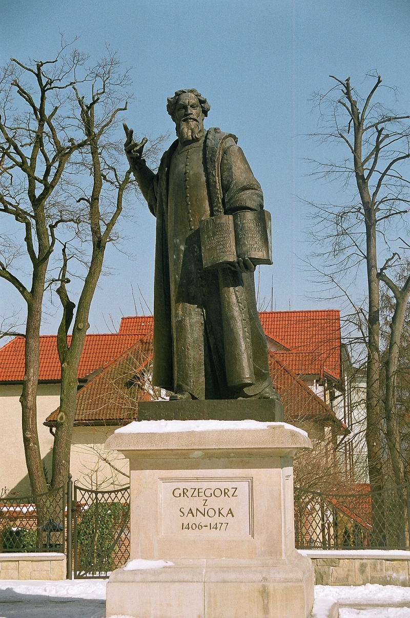 Grzegorz z Sanoka